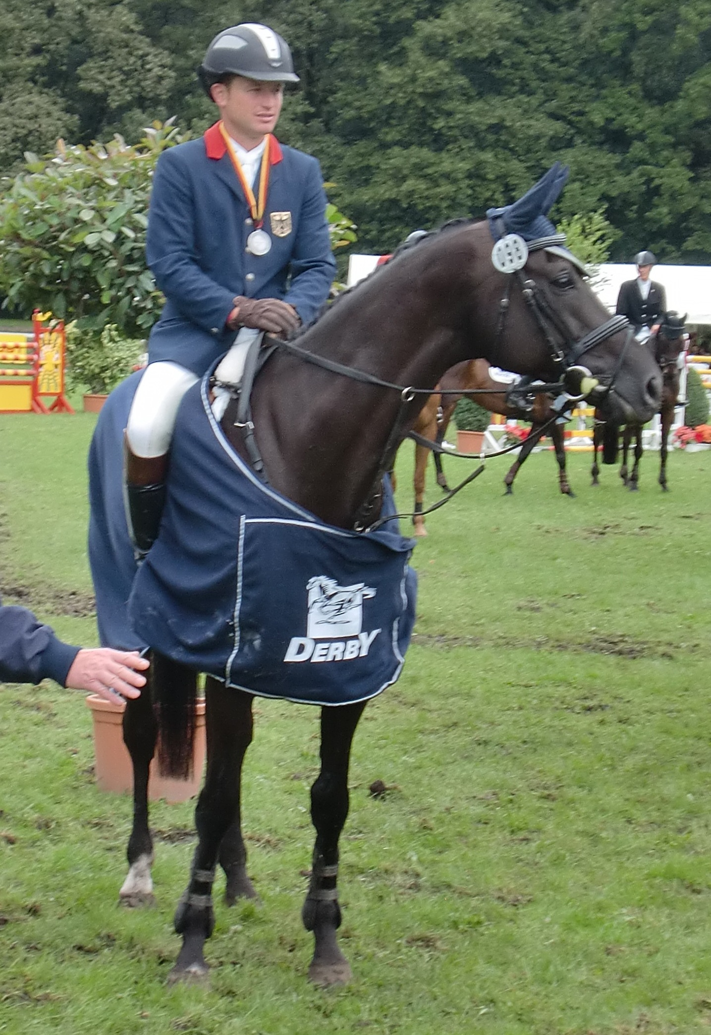 Michael Jung and Weidezaunprofis River of Joy, presentation ceremony of the German Eventing Championships 2010, CIC 3*-W Schenefeld 2010